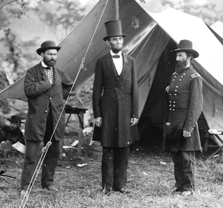 Allan Pinkerton, President Abraham Lincoln, and Major General John A. McClernand. This photo was taken not long after the Civil War’s first battle on northern soil in Antietam, Maryland on October 3, 1862. Pinkerton was the head of Union Intelligence Services at the time. He also, allegedly, foiled an assassination attempt against Lincoln. His wartime work was critical in Pinkerton’s development, which he later used to pioneer the American private detective industry when he formed the Pinkerton National Detective Agency.